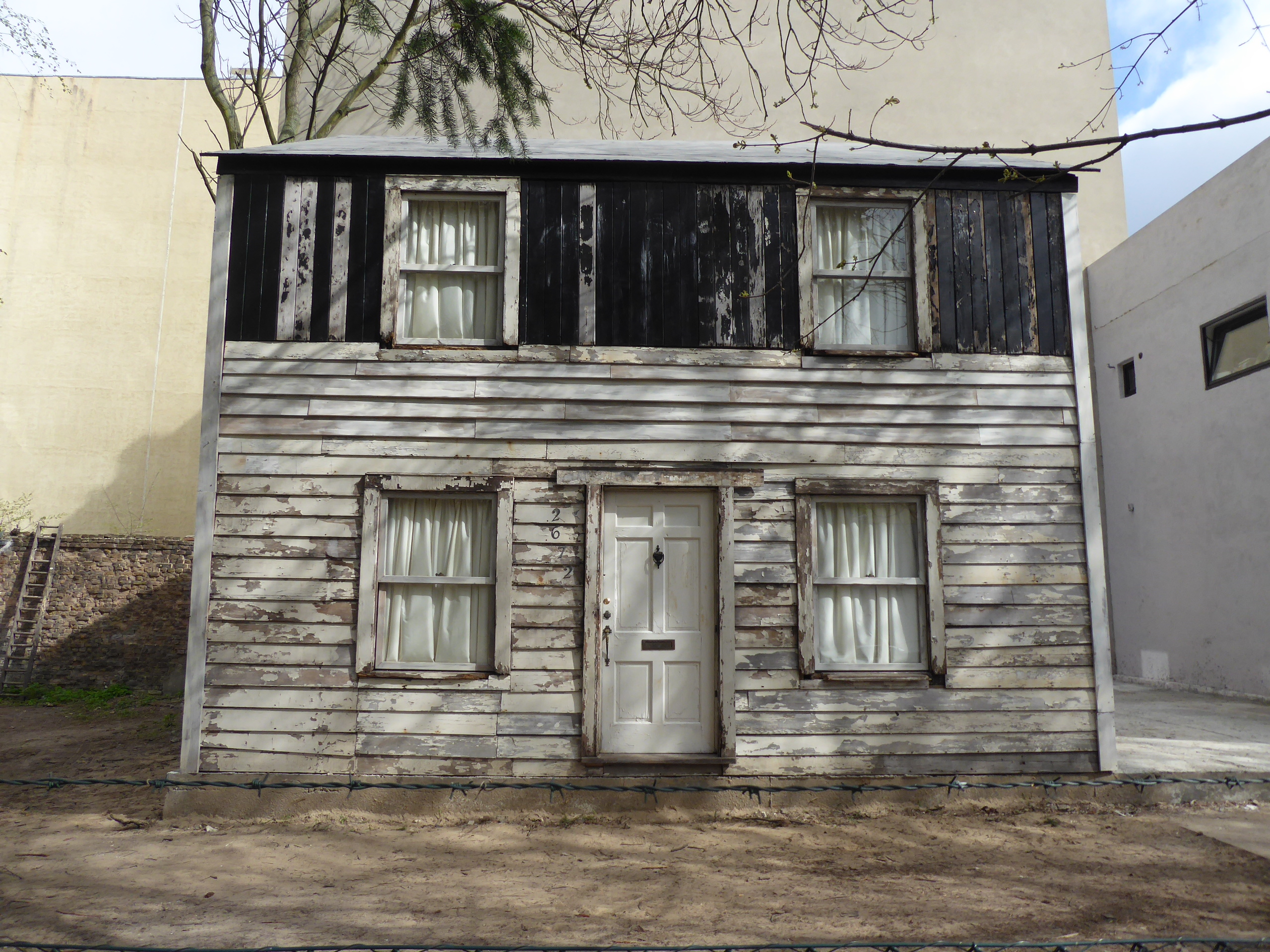 Gesundbrunnen Wriezener Straße Rosa-Parks-Haus